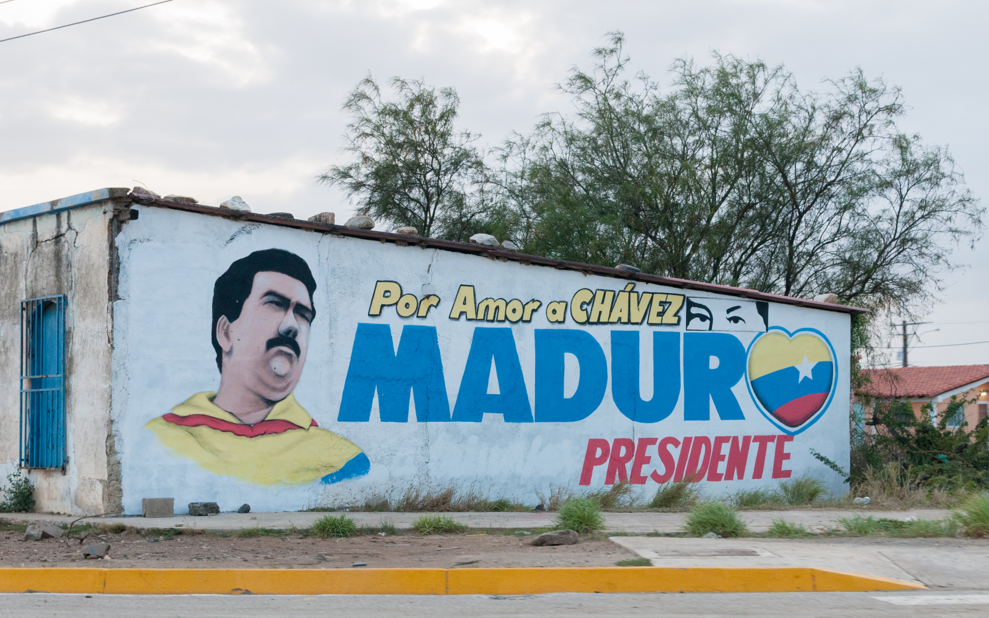 Maduro advertising.